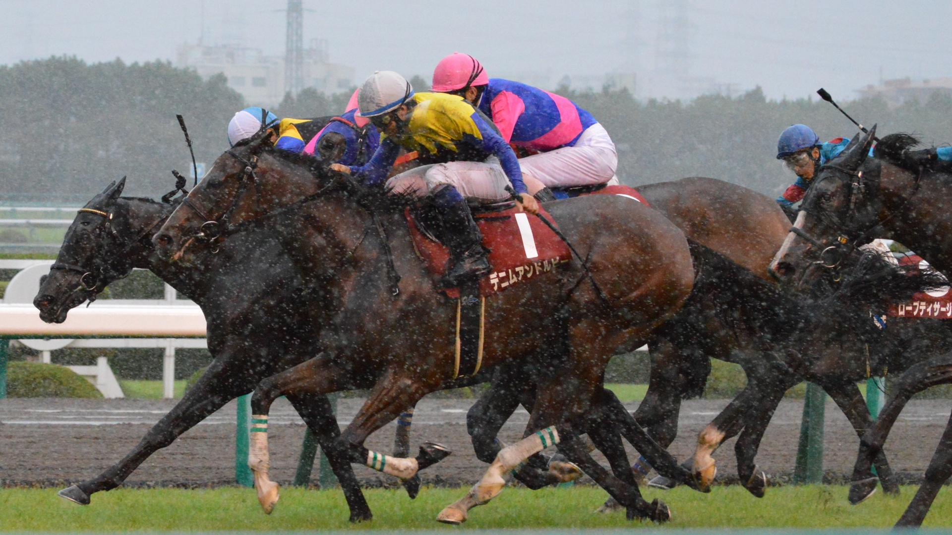 Japanese race horse Denim and Ruby at Hanshin racecourse.